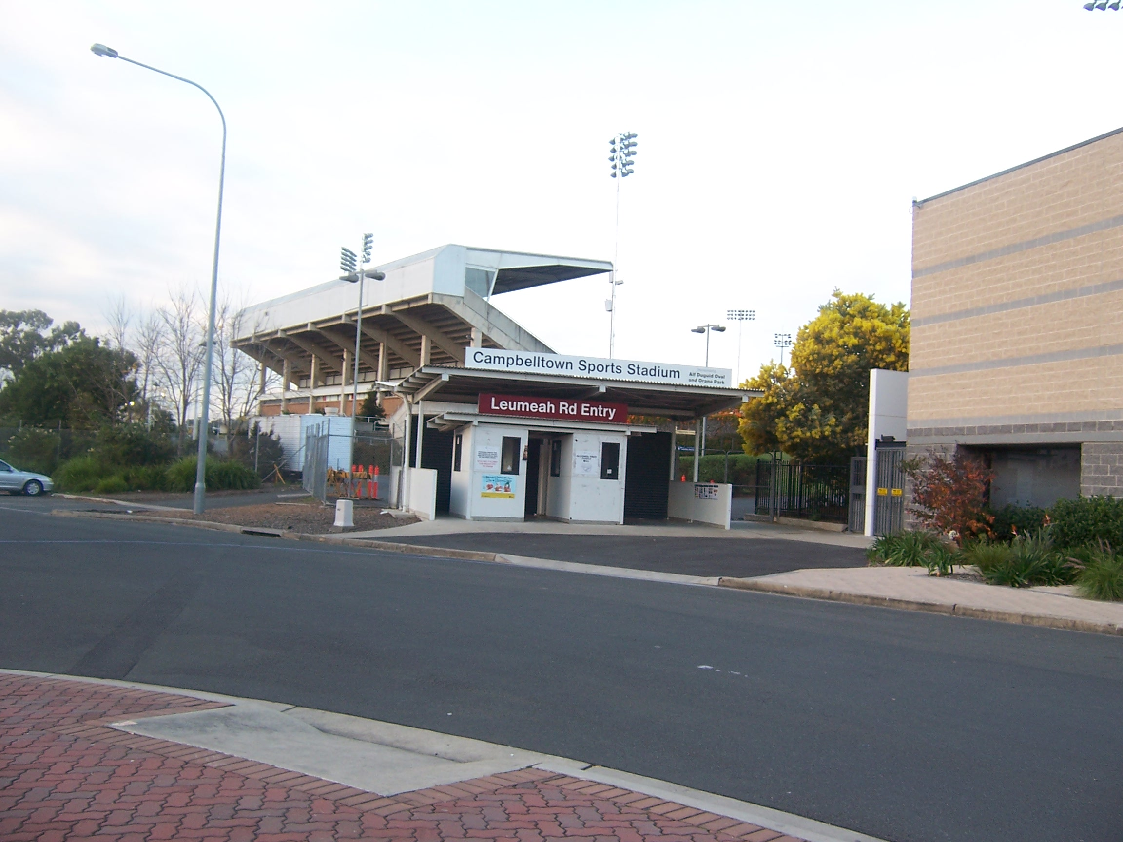 Entrance to Campbelltown Sports Ground